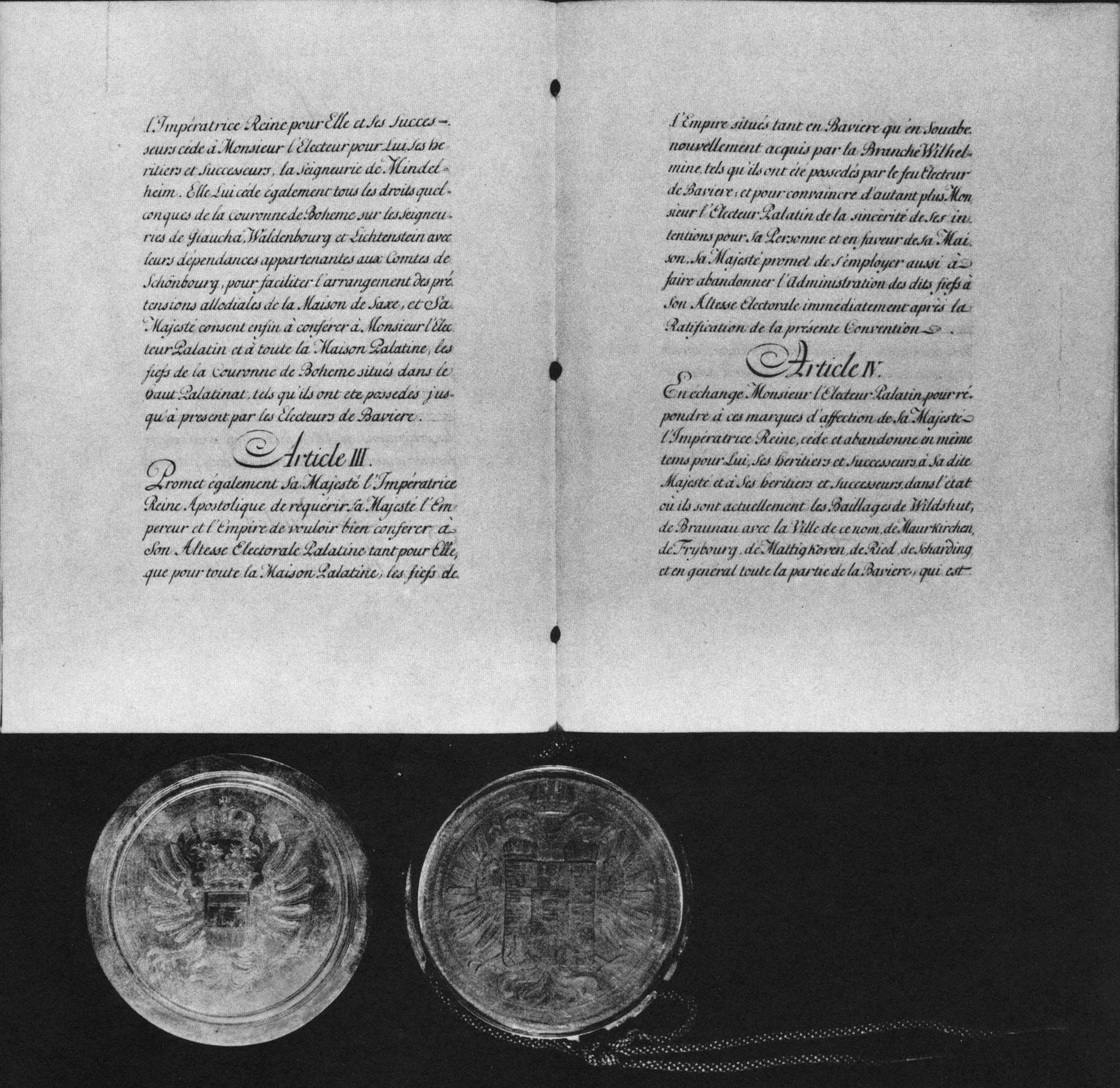 The Treaty of Teschen, Austrian ratification document (articles II to IV). München, Bayerisches Hauptstaatsarchiv, Bayern Urk. 1064.